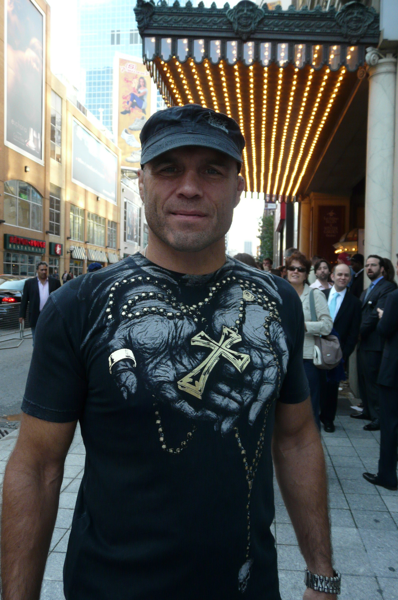 UFC Super Star Randy Couture in attendance for the tiff '08 premiere of The Wrestler. A big thanks to randy for letting me snap his picture!! Check out more great Tiff photos and video at